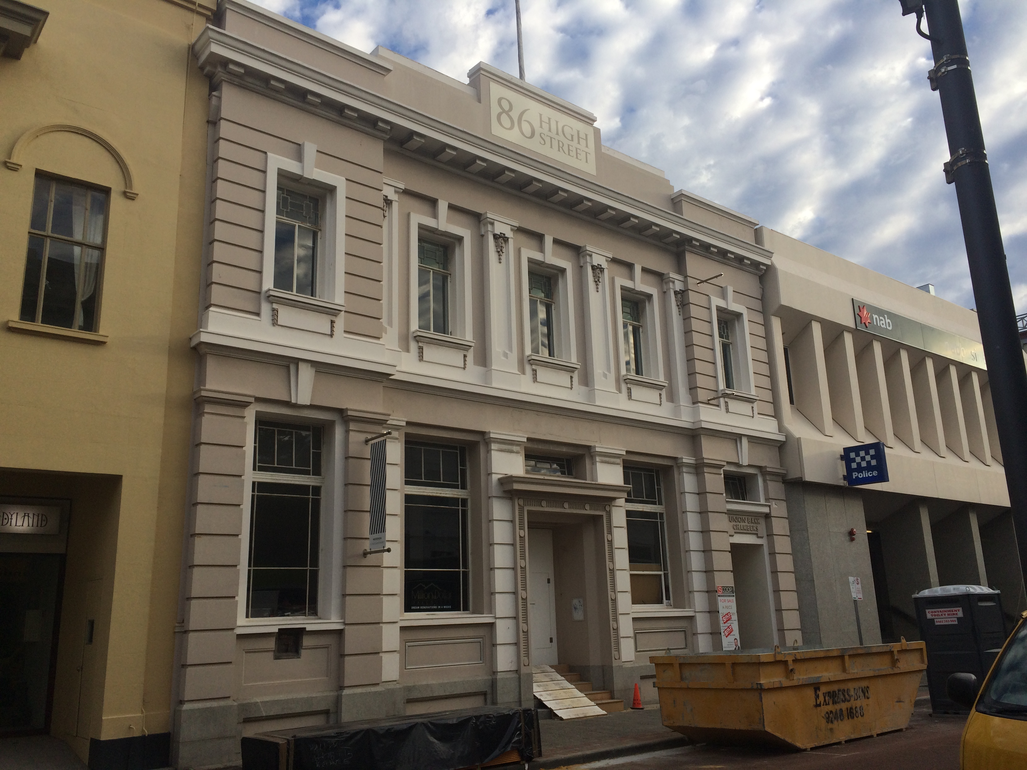 Union Bank 86 High St Fremantle